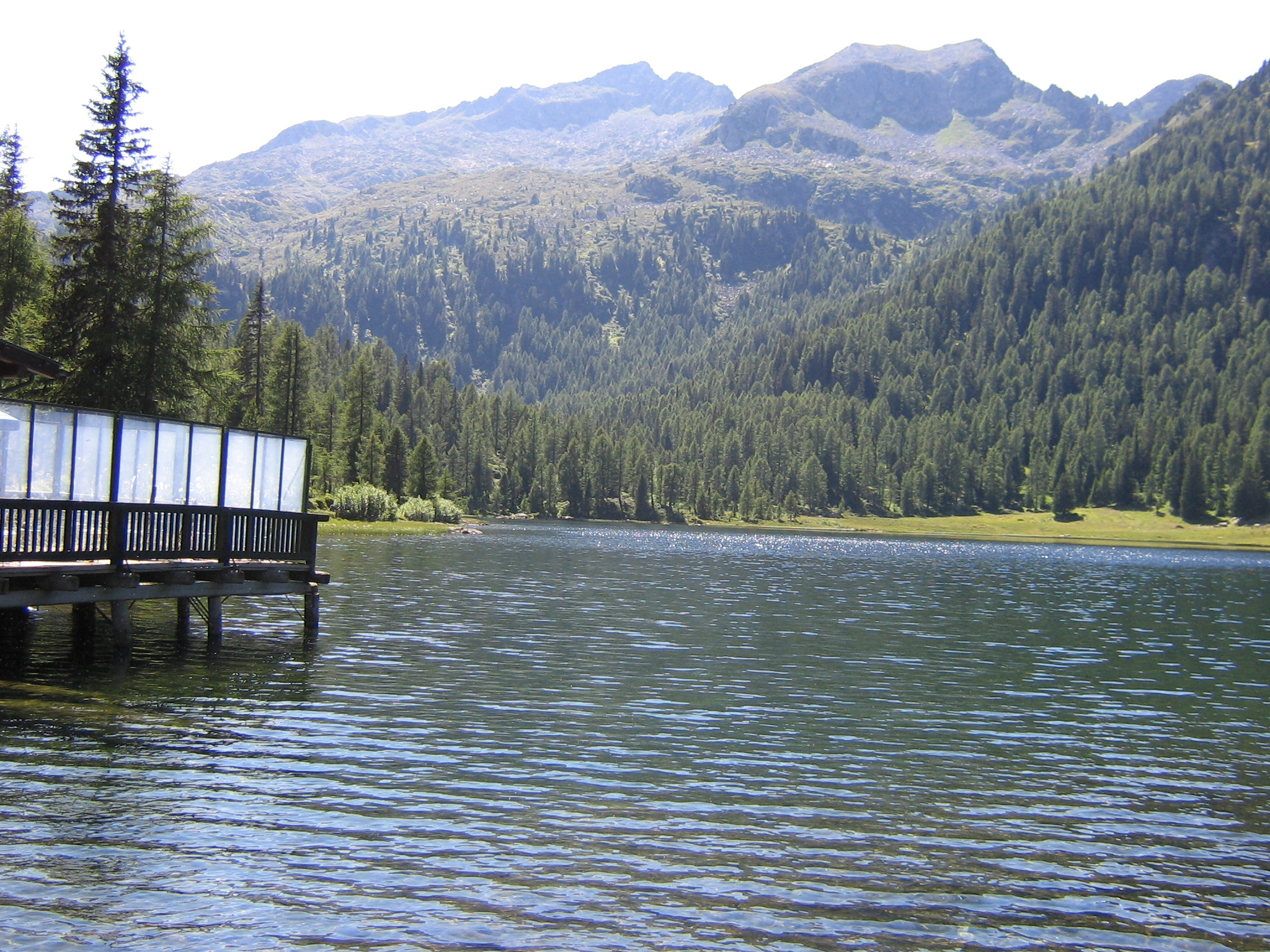 Presanella mountains: Lake Malghette (1890 m). On the background, Cima di Laste (2770 m).